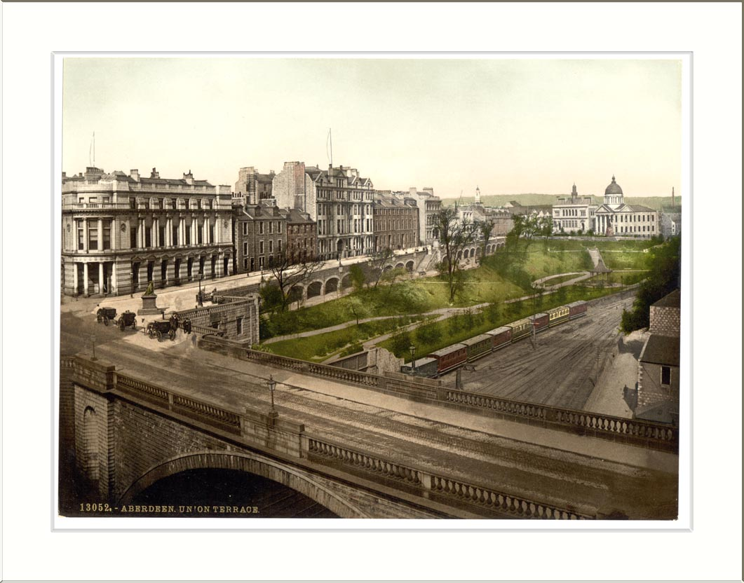 Union Terrace Aberdeen Scotland